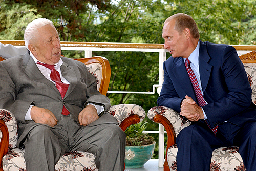 Vladimir Putin with avar and russian poet Rasul Gamzatov